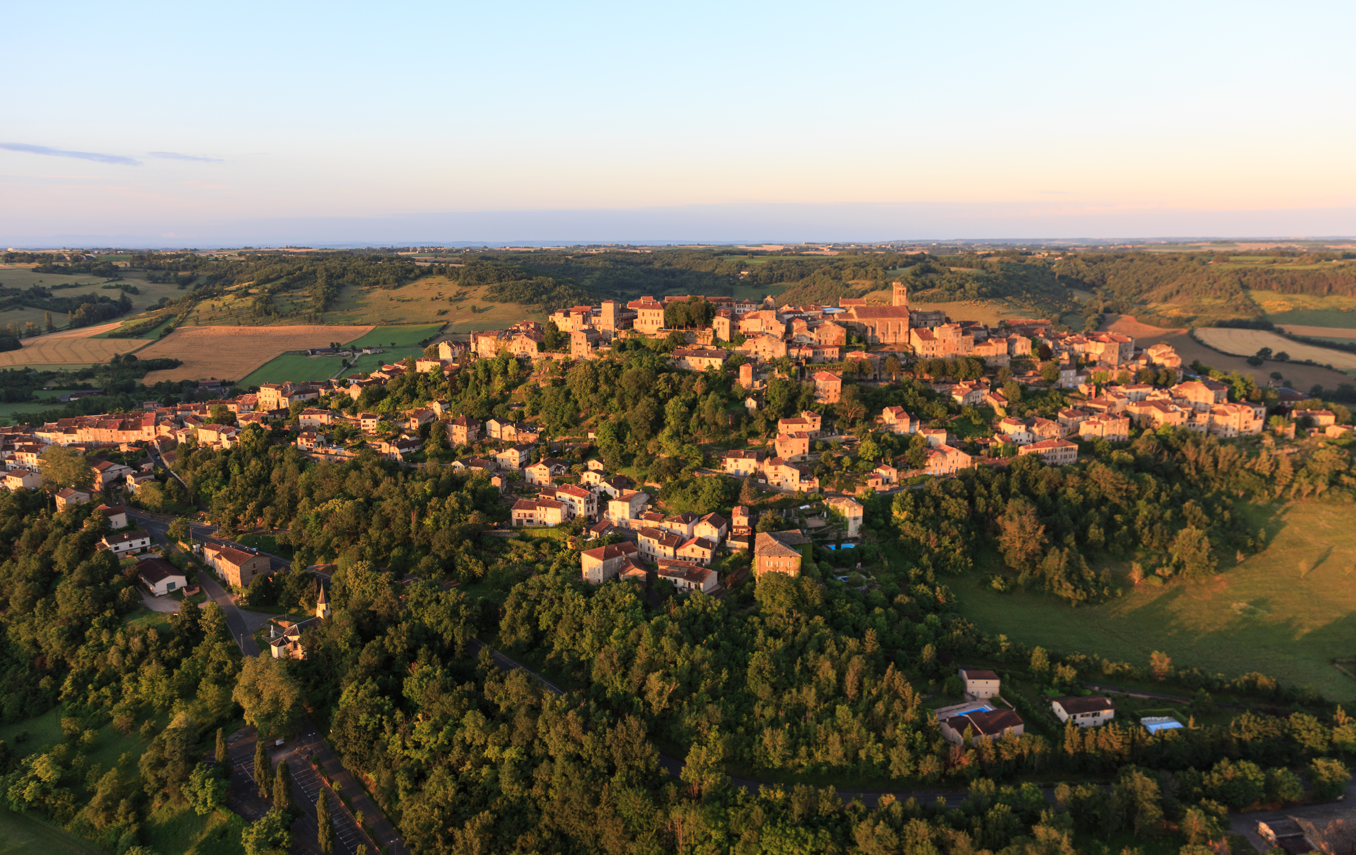 Cordes-sur-Ciel at sunrise.